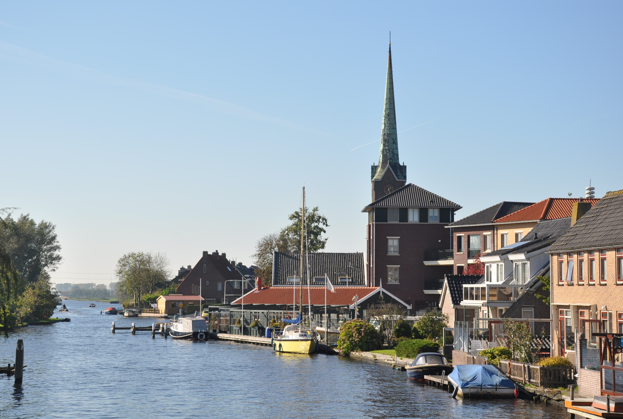 Hoogmade on the Does canal (Municipality of Kaag en Braassem, Province of South Holland, Netherlands).